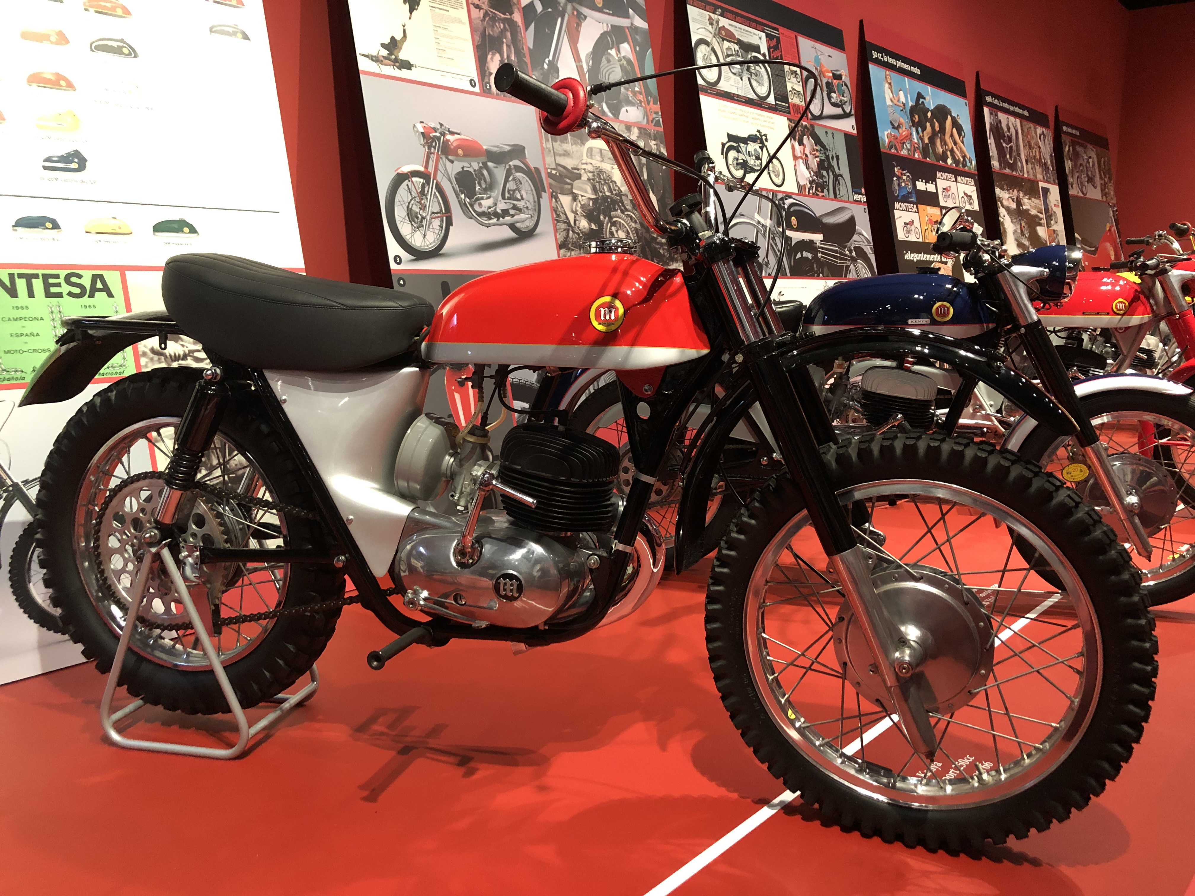 Montesa Impala Cross 250 (1963), Mod. 13M, 247.6 cc